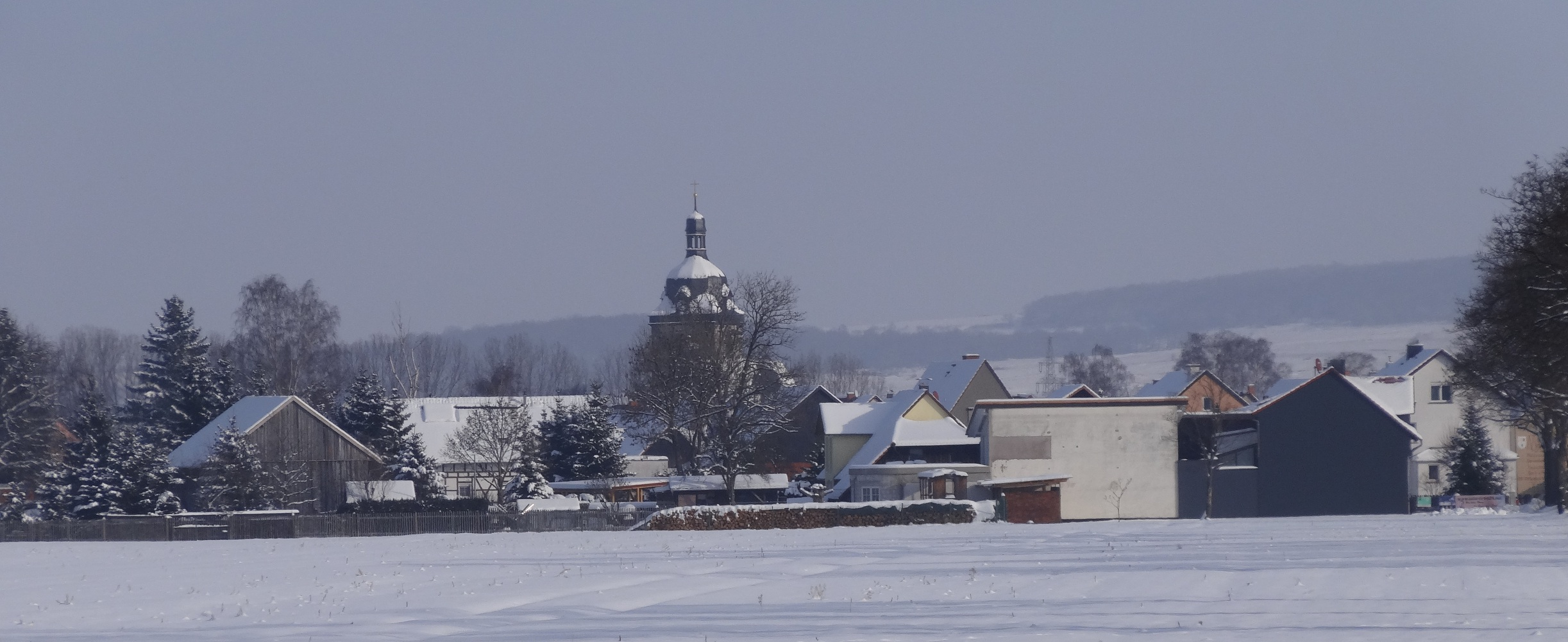 View on Hohenkirchen, Thuringia, Germany